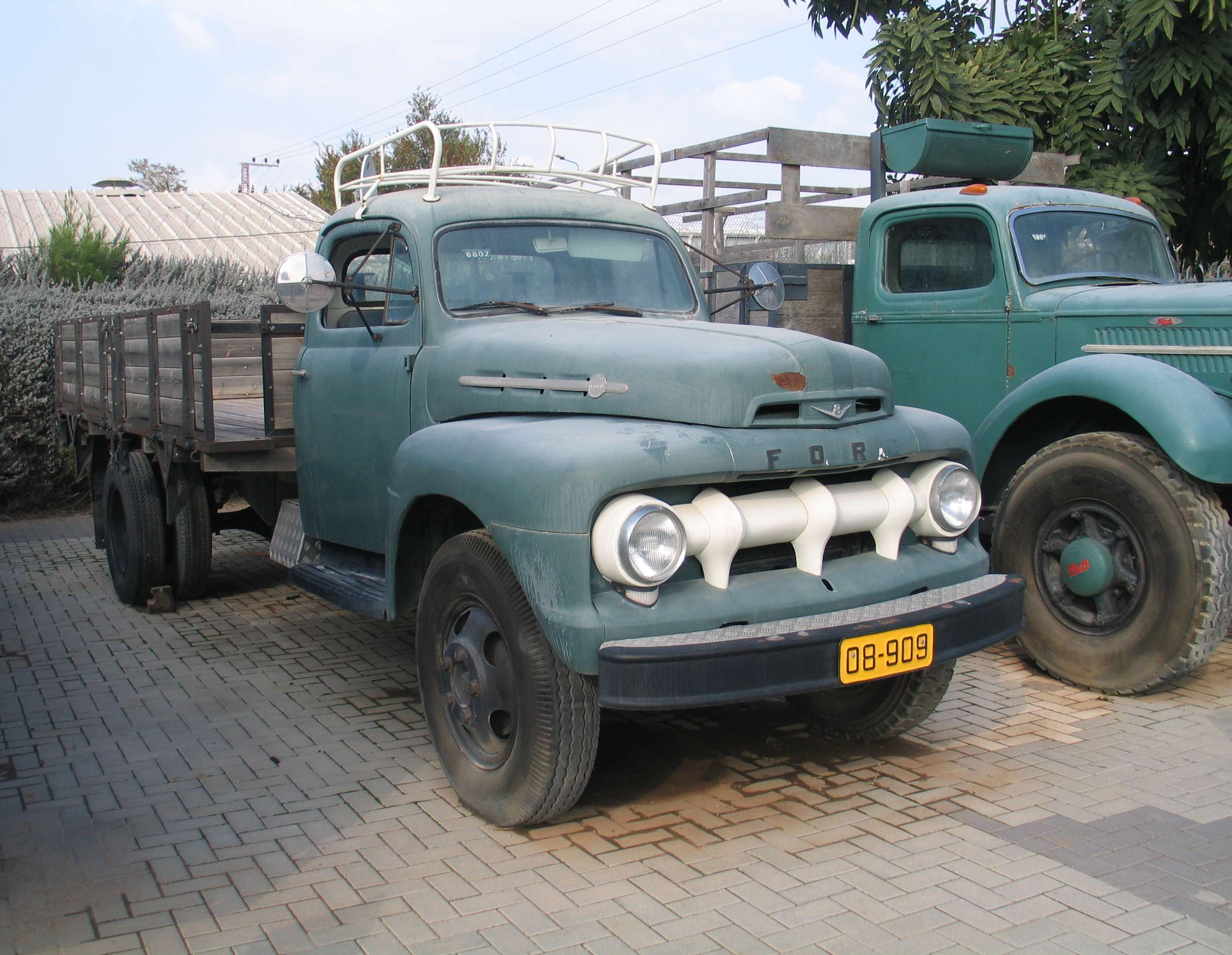 Trucks and transportation museum, Ramla, Israel.